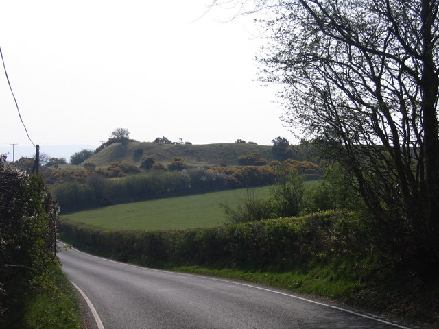 Castell Flemish Bryngaer ar ochr A485 ger Tyncelyn / Hillfort by the A485 near Tyncelyn